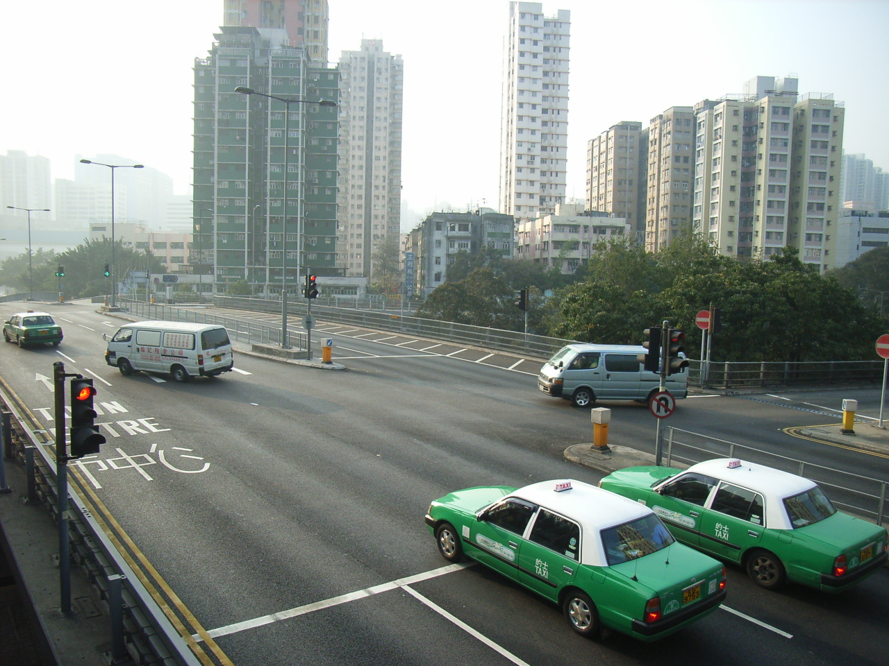 Pui To Road, 杯渡路, Tuen Mun, New Territories, Hong Kong. (Photo created by User:TUmuMATo)。